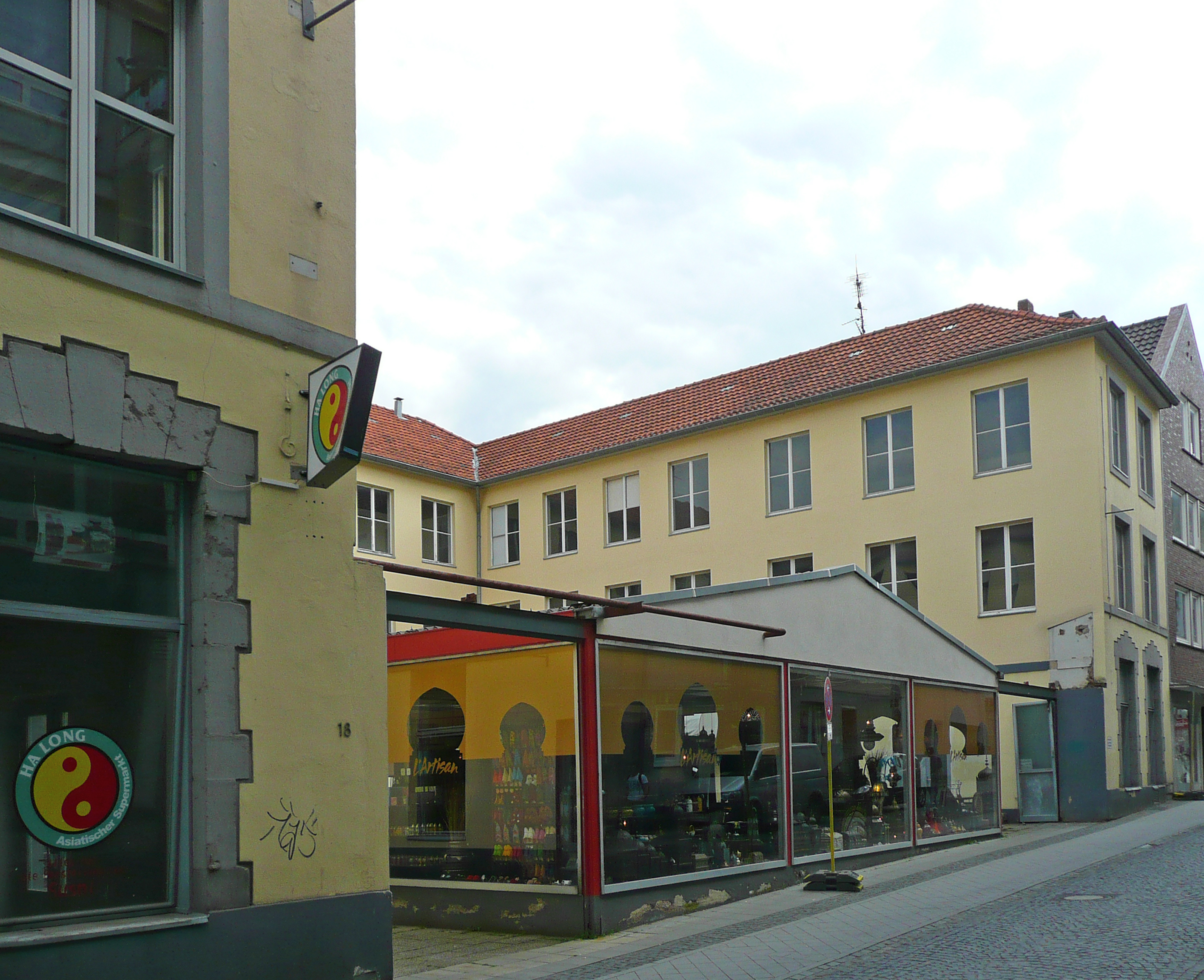 Building in Aachen, Kleinkölnstr.